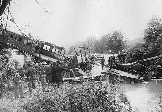 photography of the rail accident in Münchenstein, Switzerland. On June 14, 1891 a railway collapsed under a heavy train with more than 500 passengers. More than 70 persons were killed.